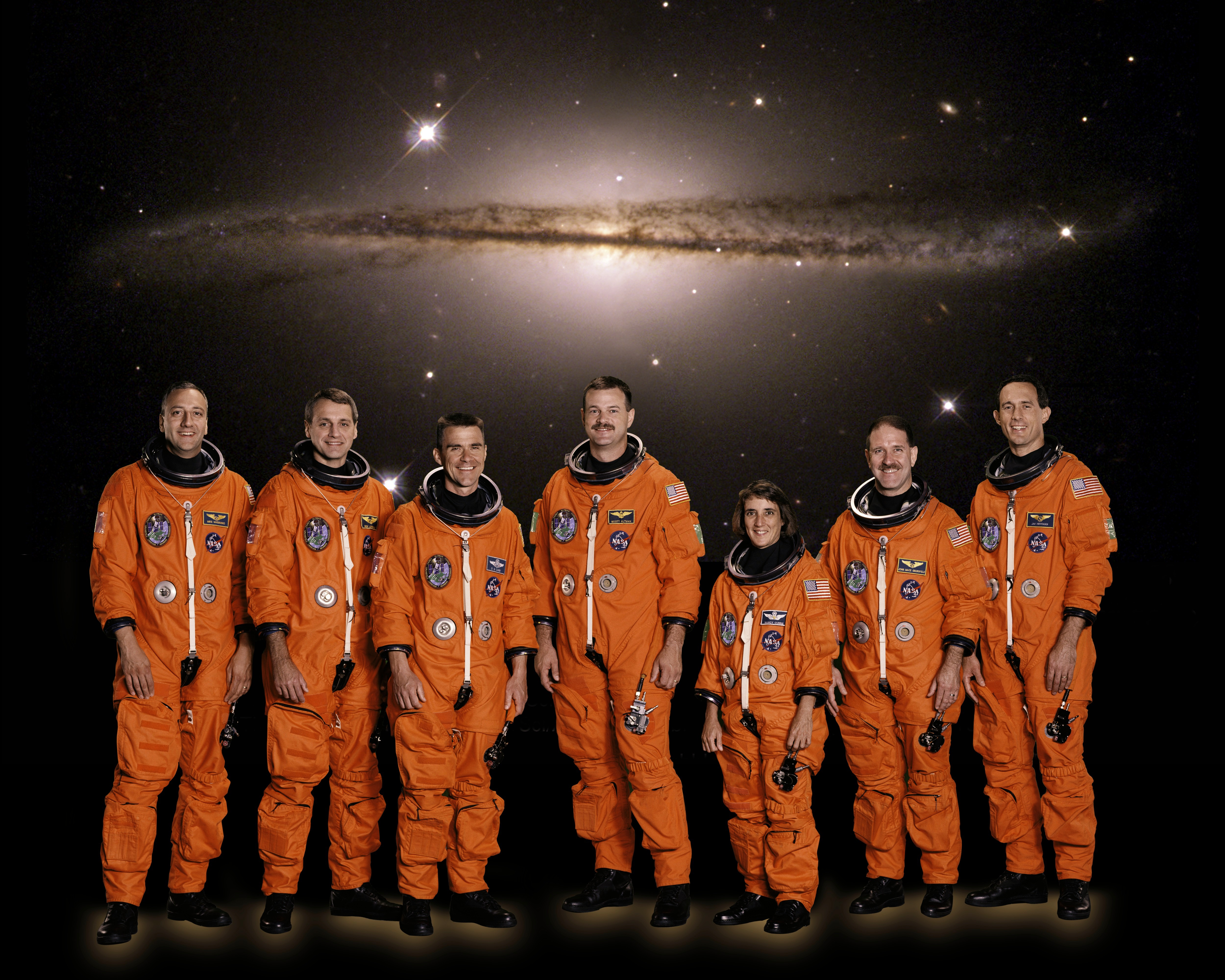 The crew of Space Shuttle mission STS-109. NASA photo STS109-S-002 taken November 2001. From the left are astronauts Michael J. Massimino, Richard M. Linnehan, Duane G. Carey, Scott D. Altman, Nancy J. Currie, John M. Grunsfeld and James H. Newman. Altman and Carey are commander and pilot, respectively, with the others serving as mission specialists. Grunsfeld is payload commander.